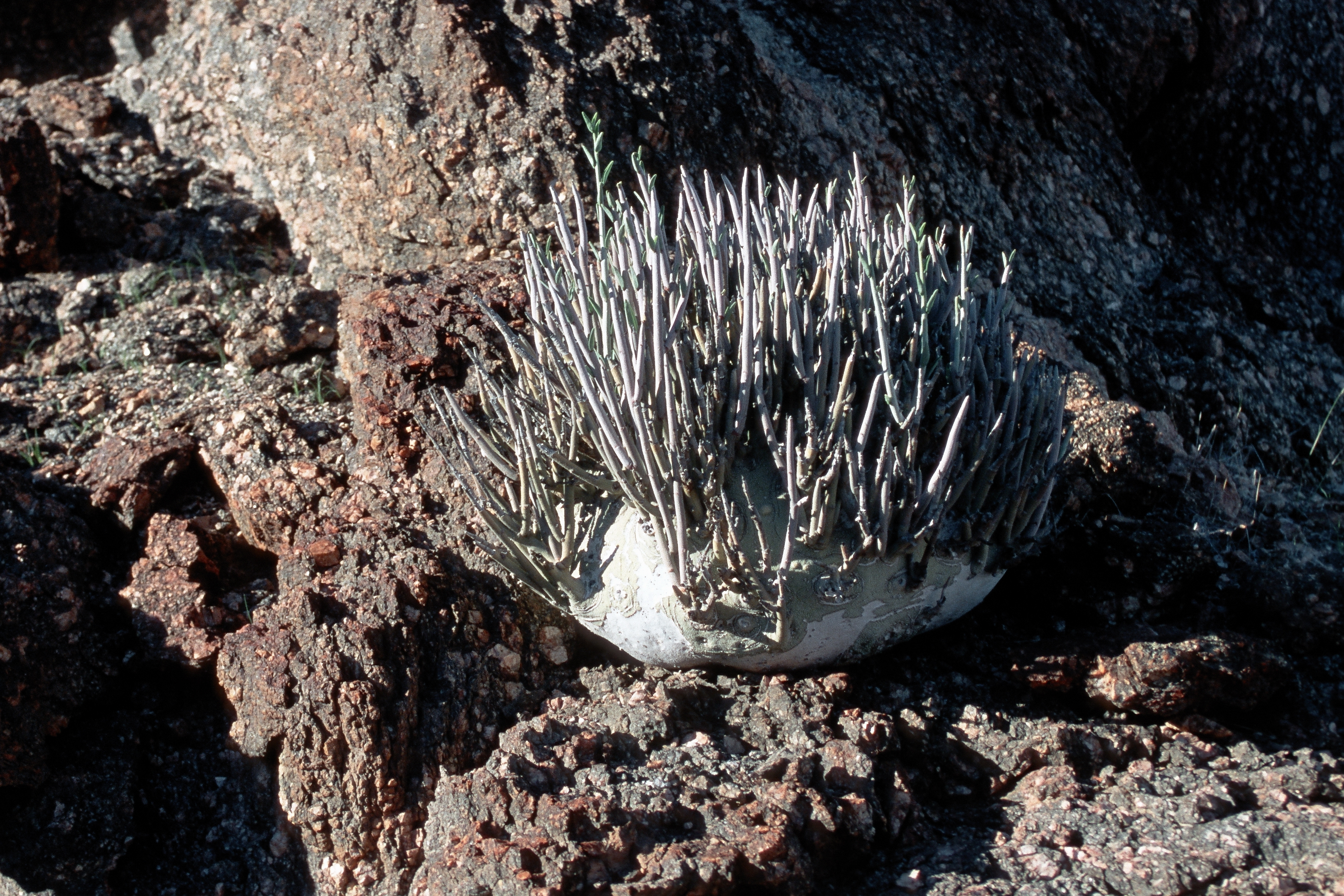 Adenia pechuelii desert cabbage endemic to Kaokoveld